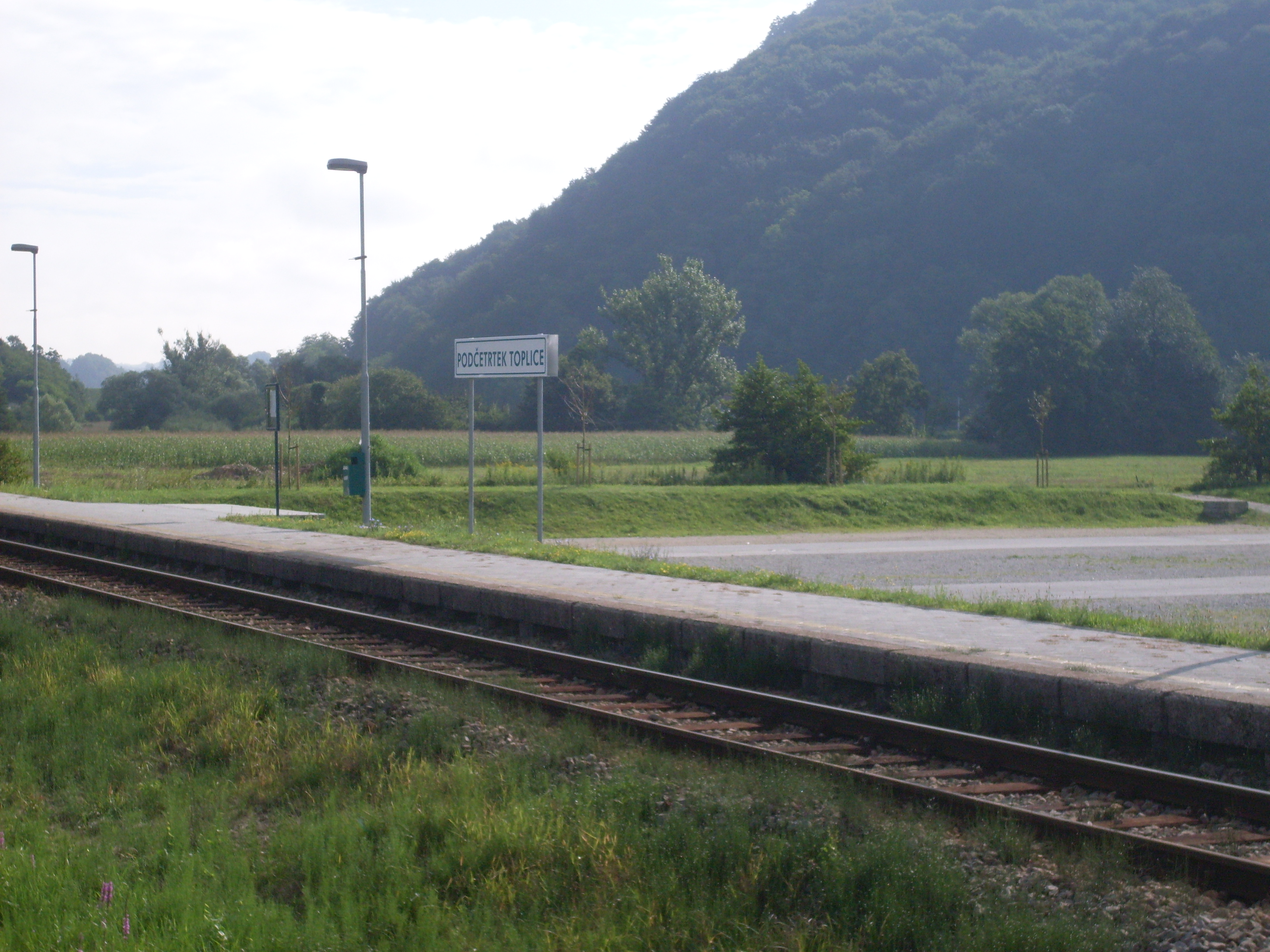 Railway halt Podčetrtek Toplice, located at the Aqualuna thermal complex, north of Podčetrtek (should not be confused with the Podčetrtek railway halt)